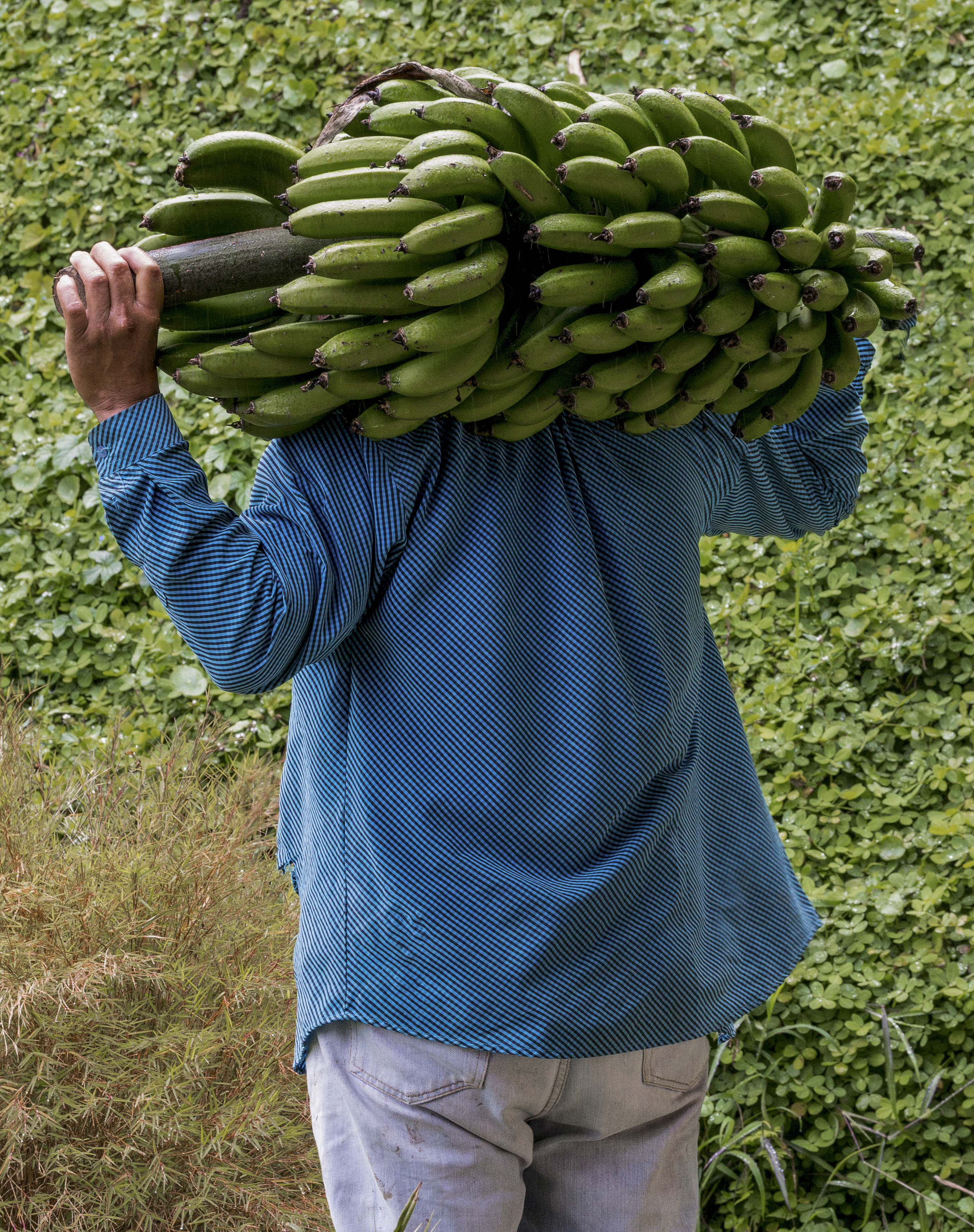 A Panamanian carrying a freshly cut stalk of bananas